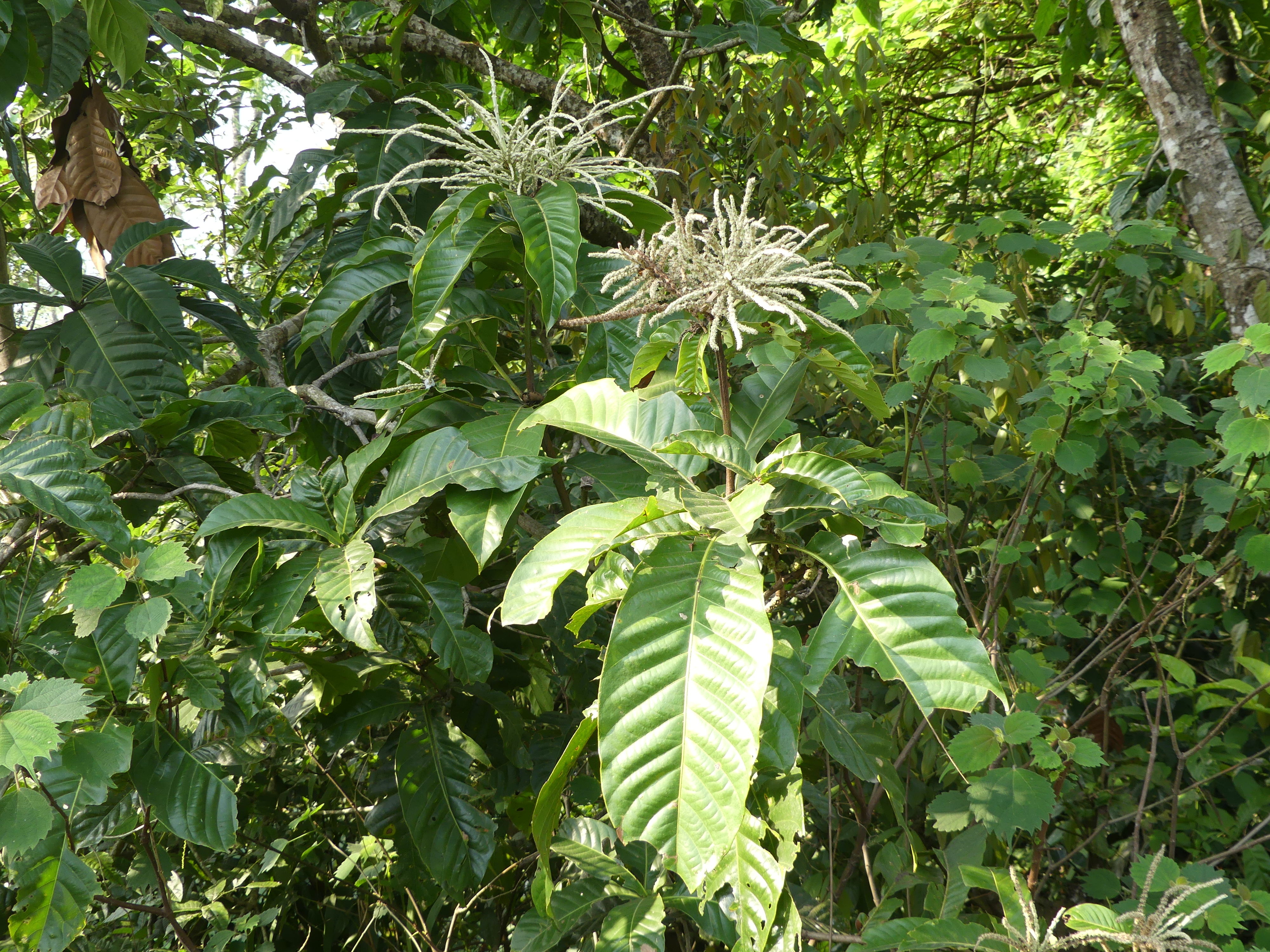 Lithocarpus elegans in North Bengal